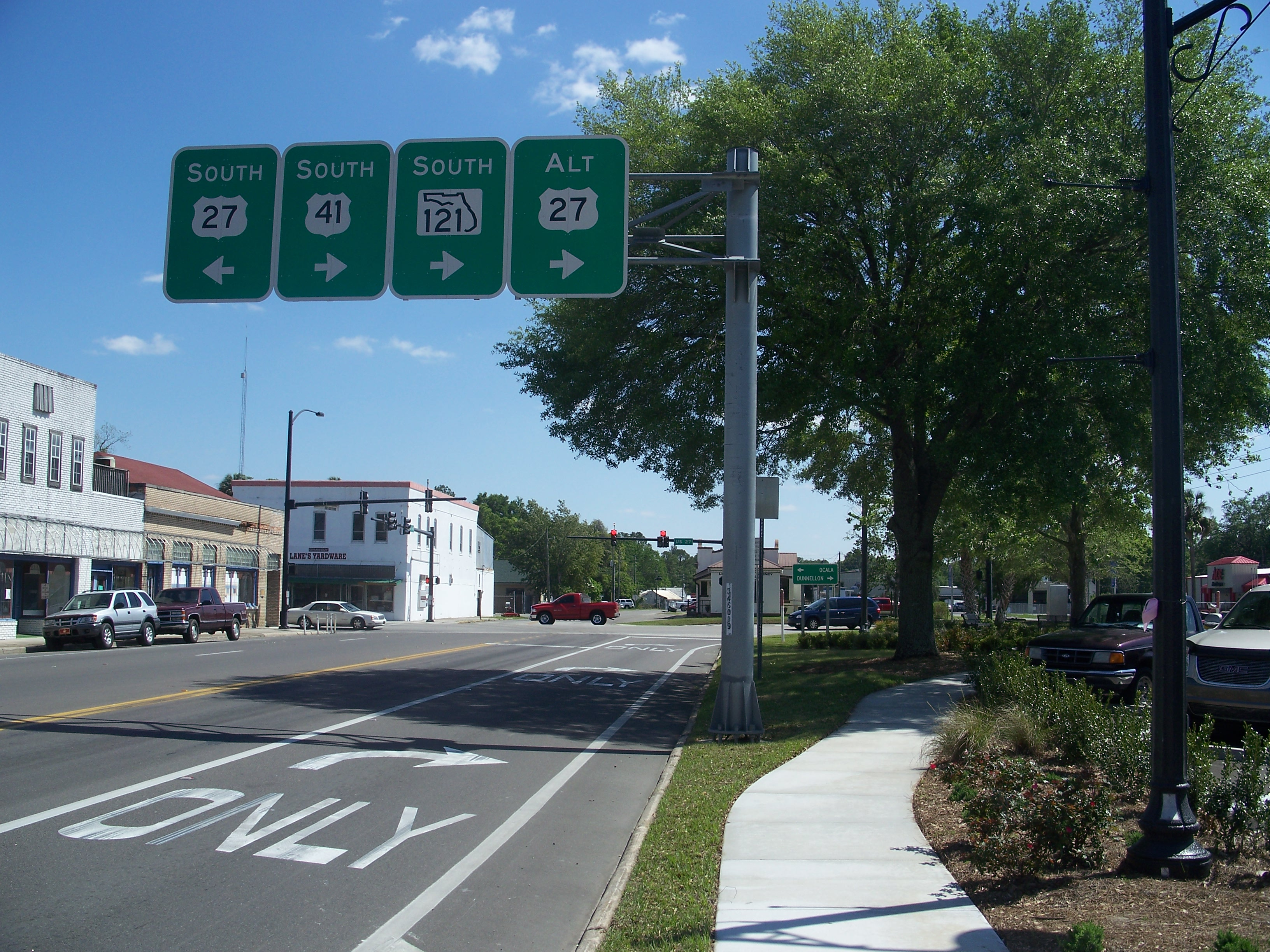 Williston: Intersection of SR 121, US 27 and US 41